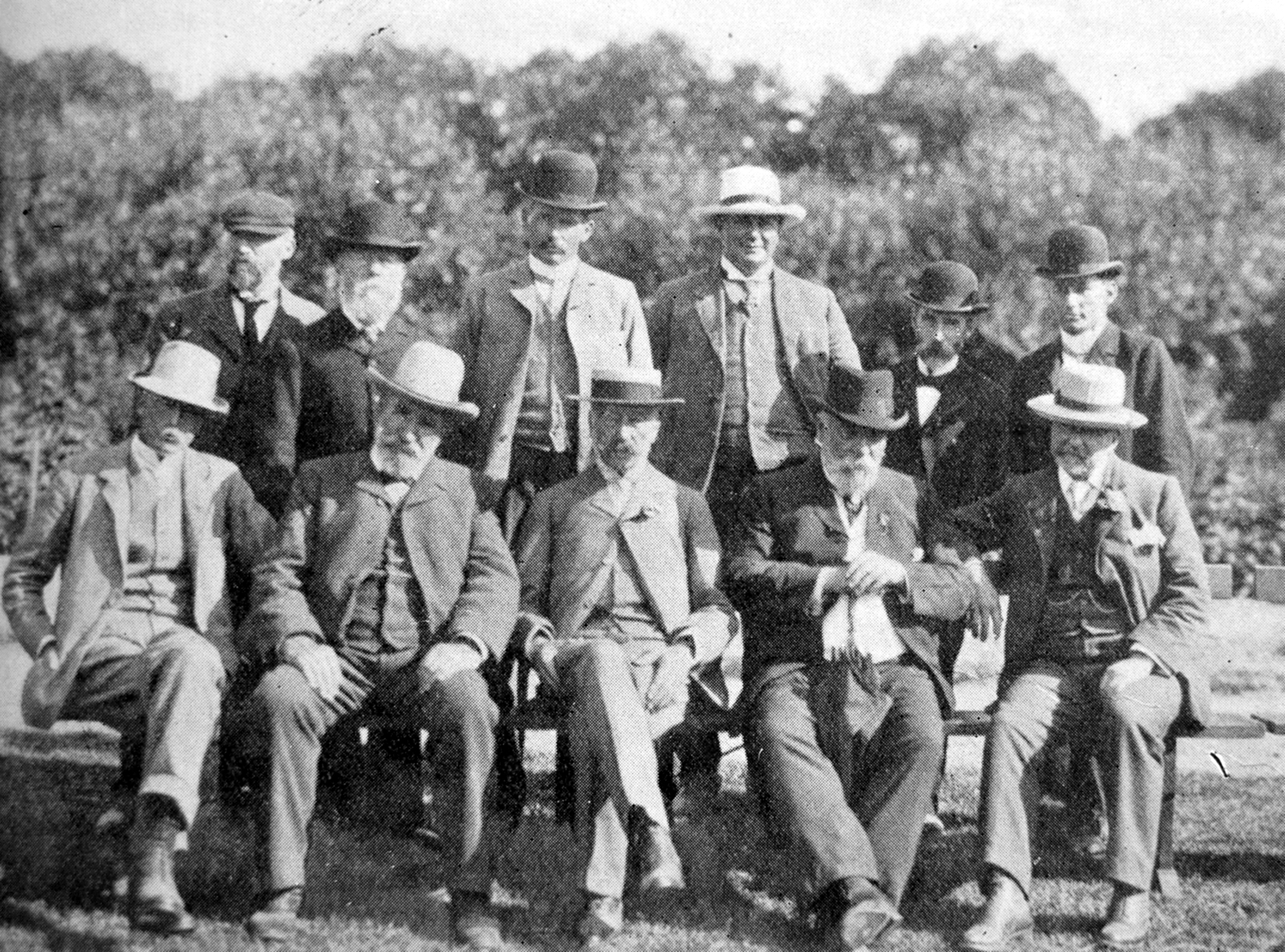 Canterbury Agricultural College: Lincoln. The annual gathering of friends of the staff and students in connection with Lincoln College was held on December 18th, when the prizes for the year were presented to the successful students by Lady Clifford. Board of Governors and staff. Front row (Board) Mr J. Studholme, Mr D. McMillan, the Hon. E. C. J. Stevens (Chairman), Mr M. Murphy, Mr E. Richardson. Back Row - Messrs W. Sandford, M. Guerin, W. Lowrie (Director), W. F. M. Buckley (Board of Governors), G. Gray and W. J. Colebatch.